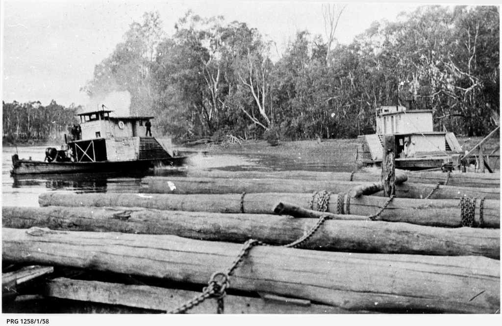 PS Alexander Arbuthnot - 1940